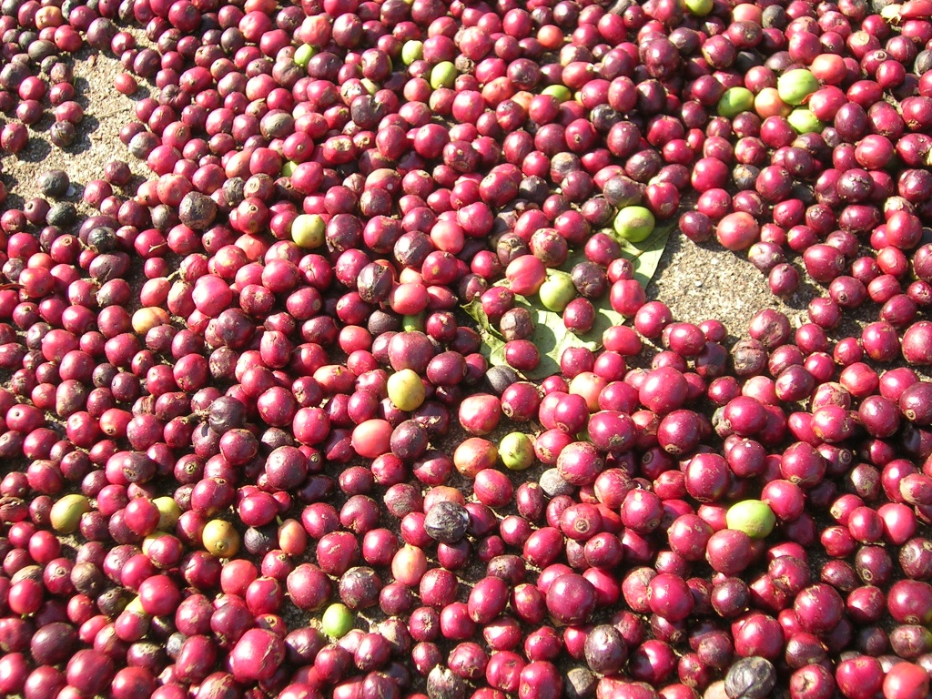 Fresh ripe berries of coffee